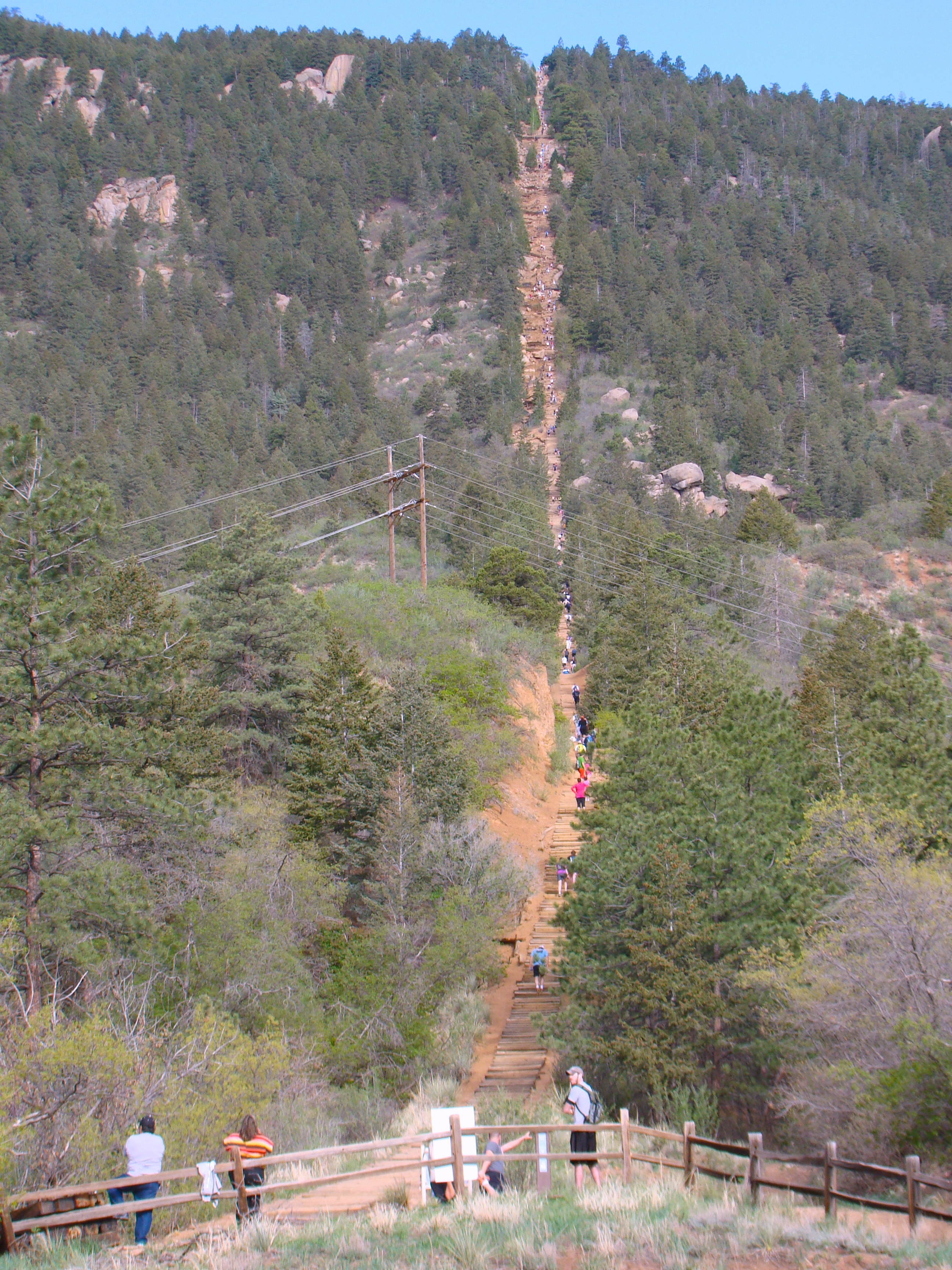 View of the Manitou Incline taken from the base of the trail, Memorial Day Weekend, May 2013